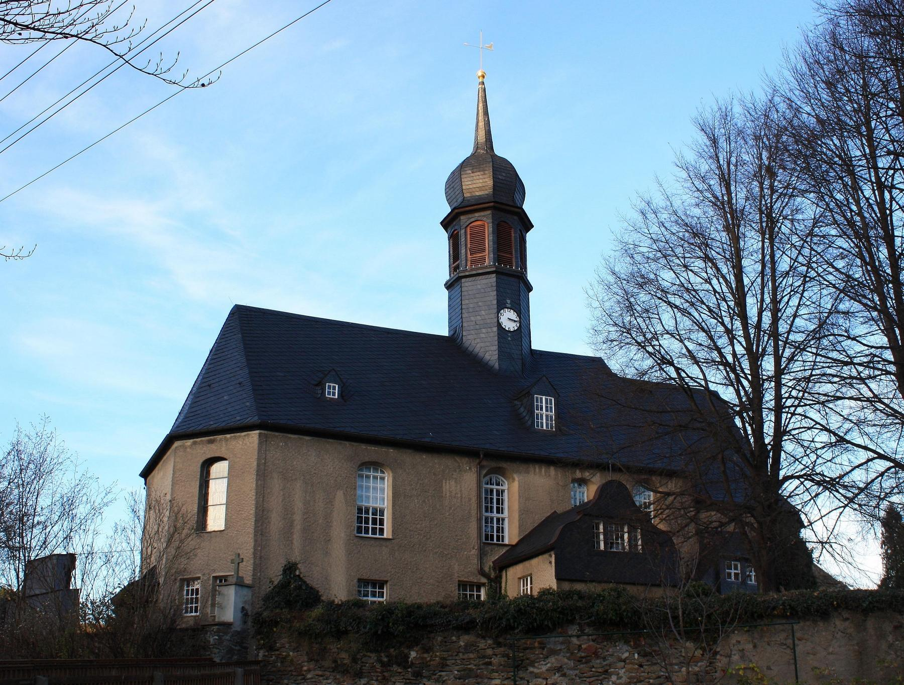 Markersbach, Germany: Church.